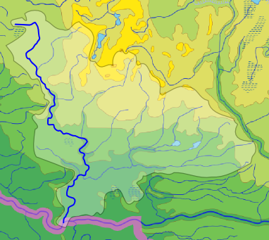 Jūra basin / catchment area of Jūra in relation to the Neman